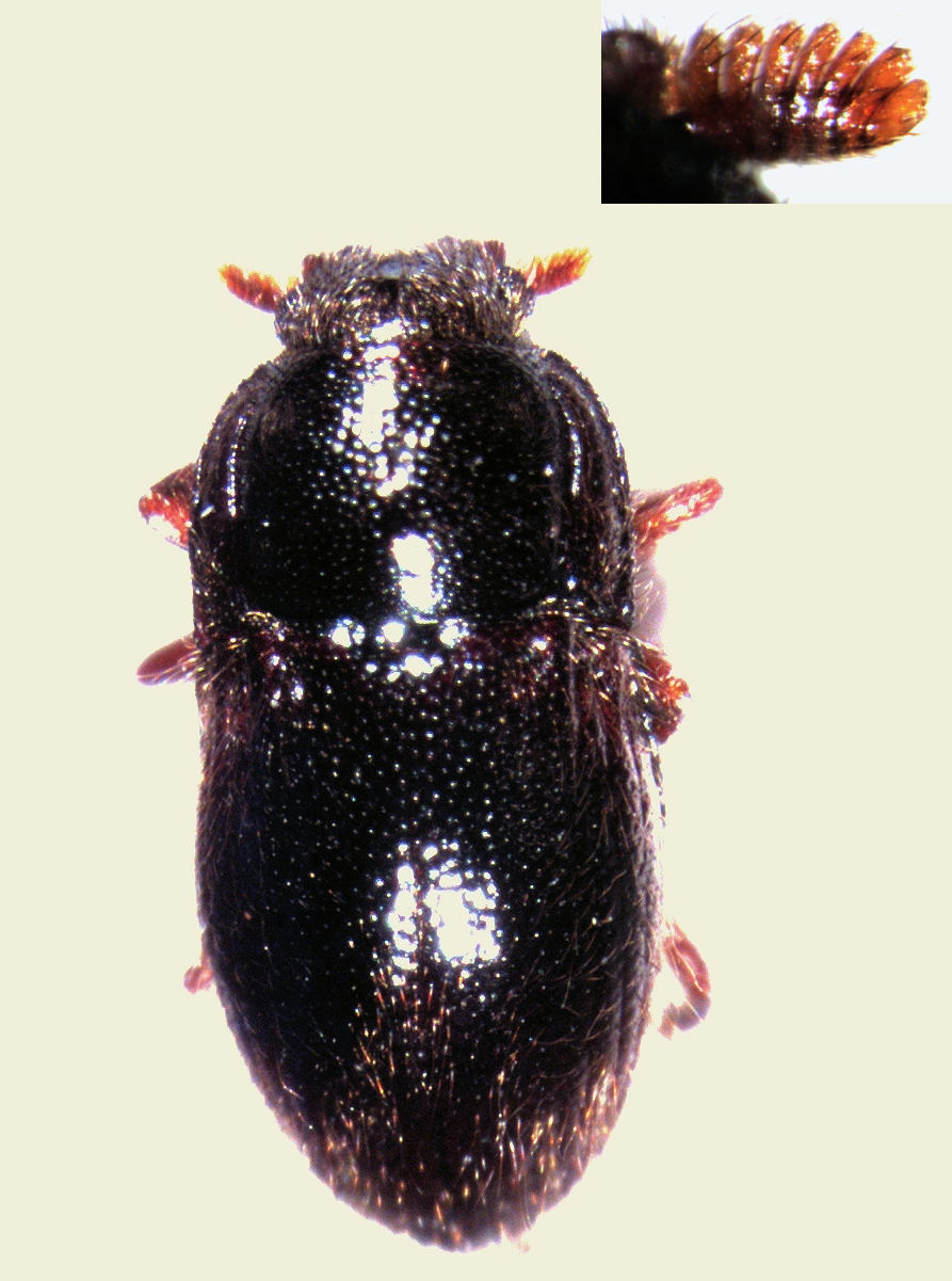 adult Parnida sp. (antenna inset)